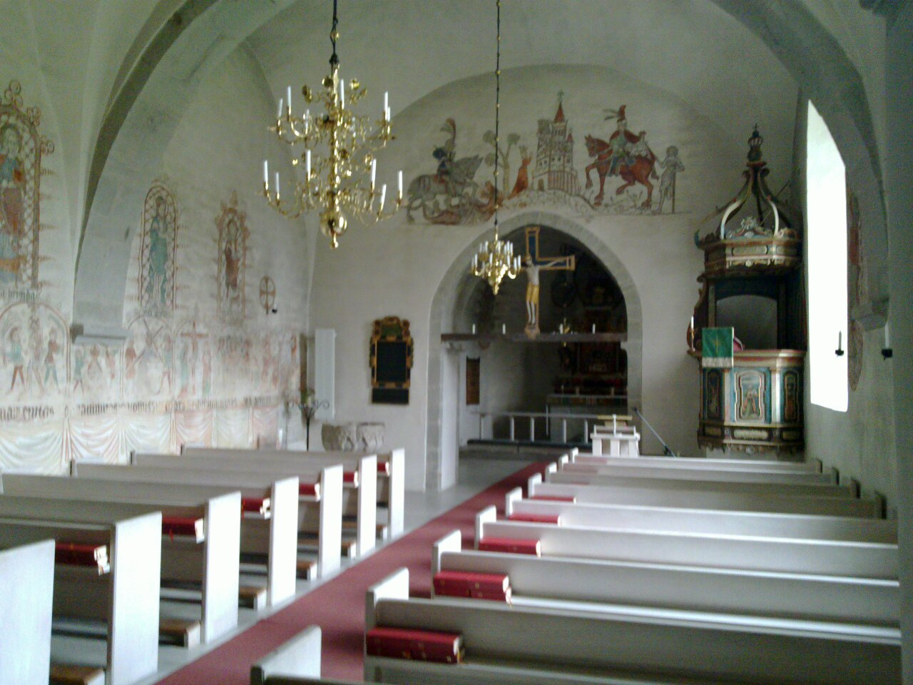 Church of Hemse, Gotland, Sweden